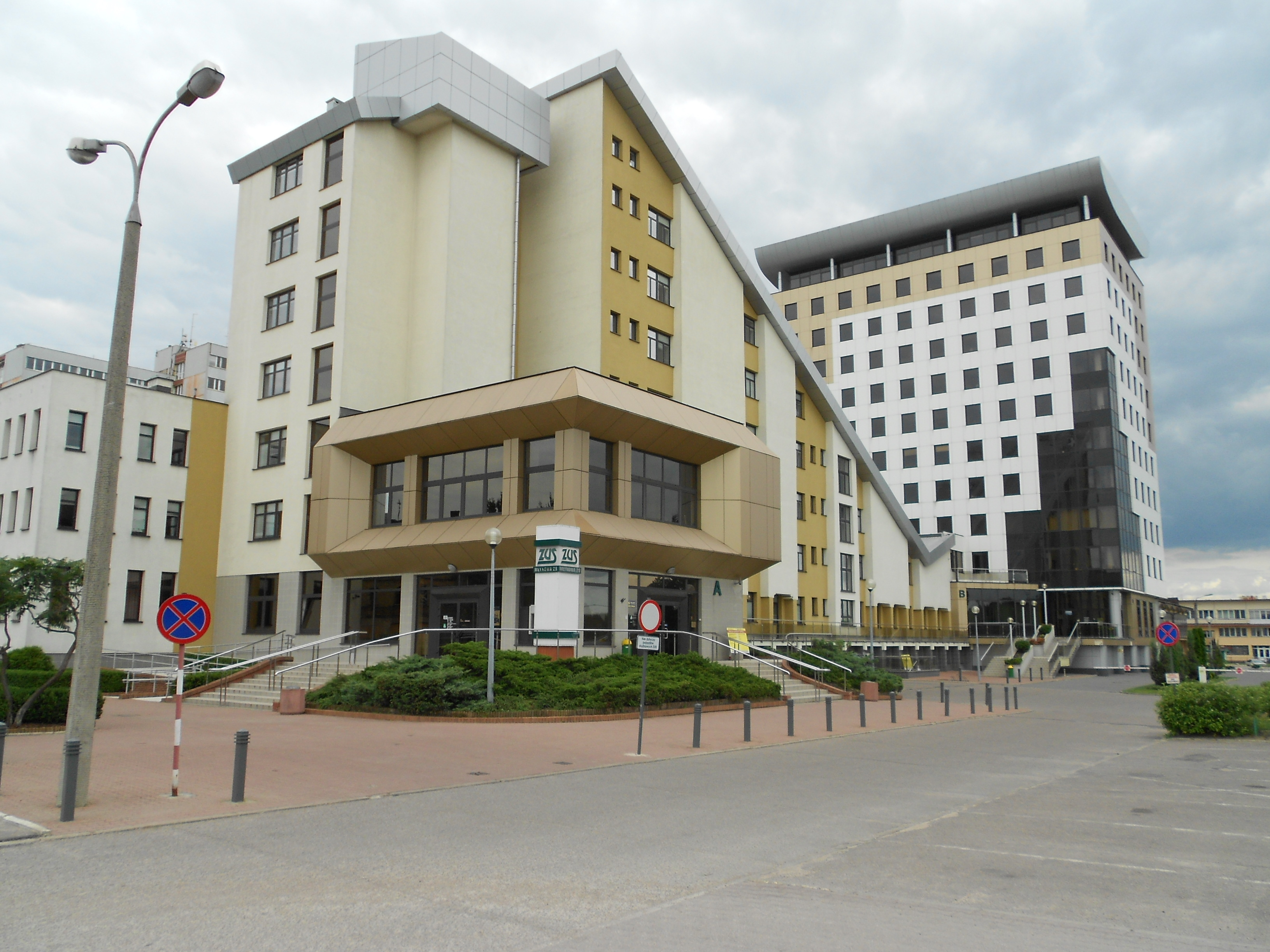 Social Insurance Institution building in Białystok, Młynowa 29 street.